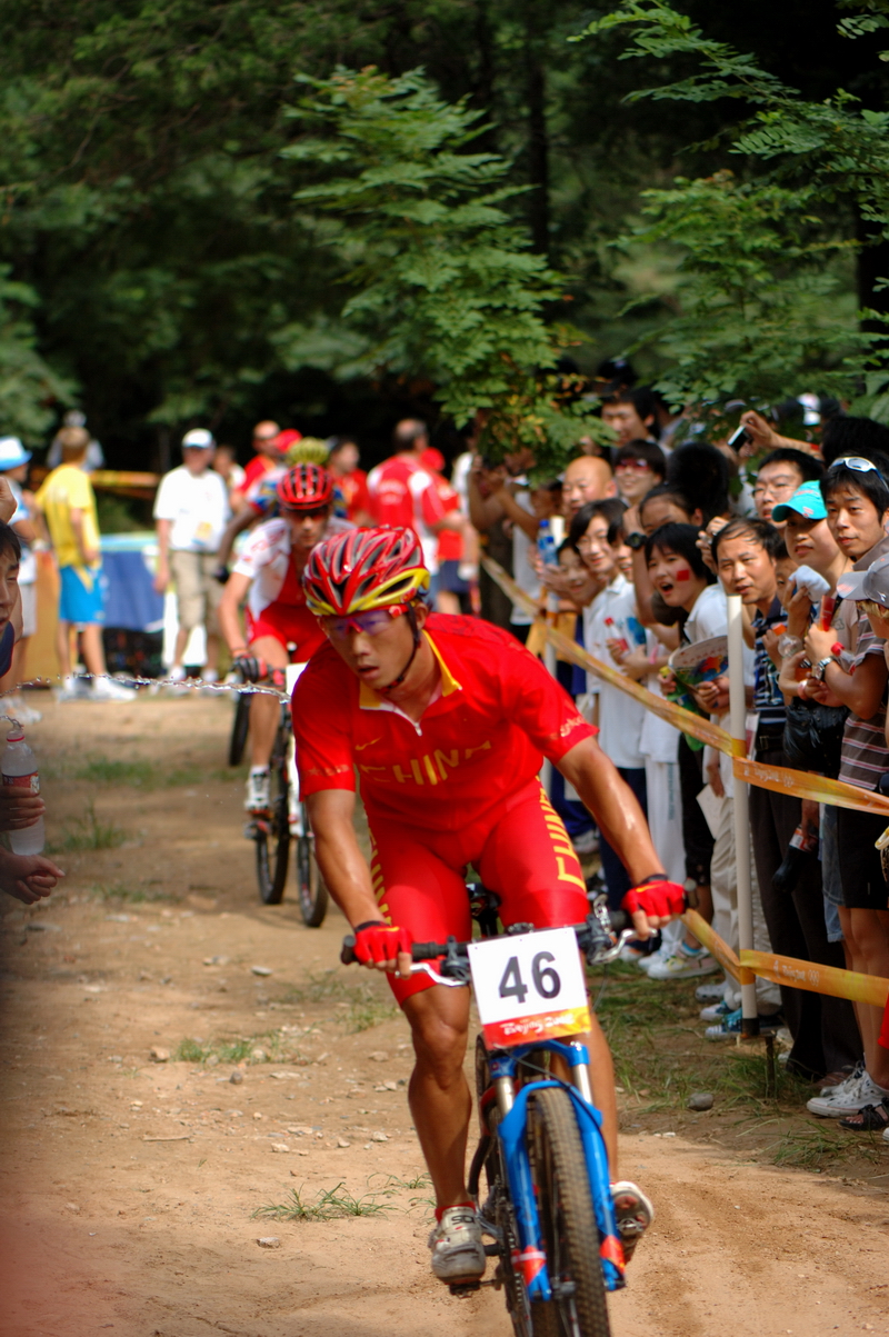 Cycling at the 2008 Summer Olympics – Men's cross-country - Jianhua Ji (China)